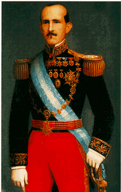 Presidente of Ecuador Juan José Flores